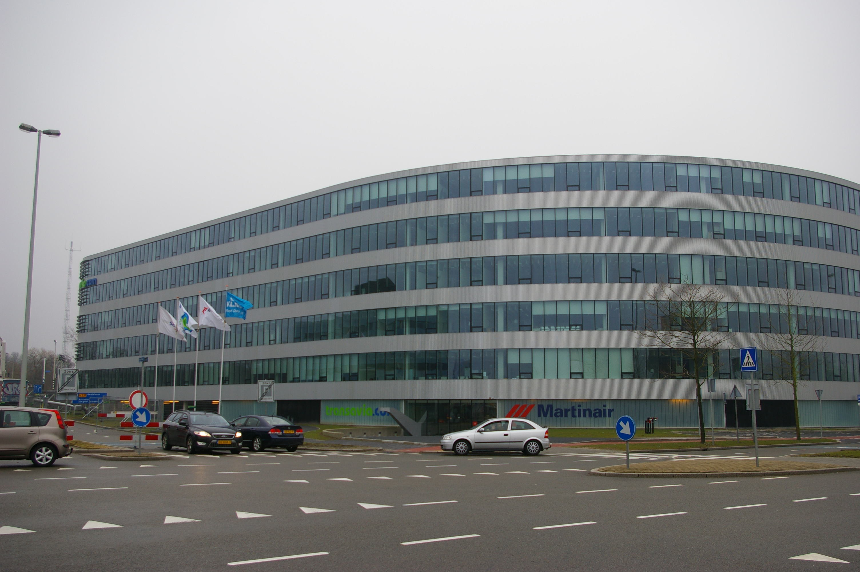 TransPort Building - Martinair and Transavia offices, Schiphol-Oost, the Netherlands. Picture taken at the request of user WhisperToMe.